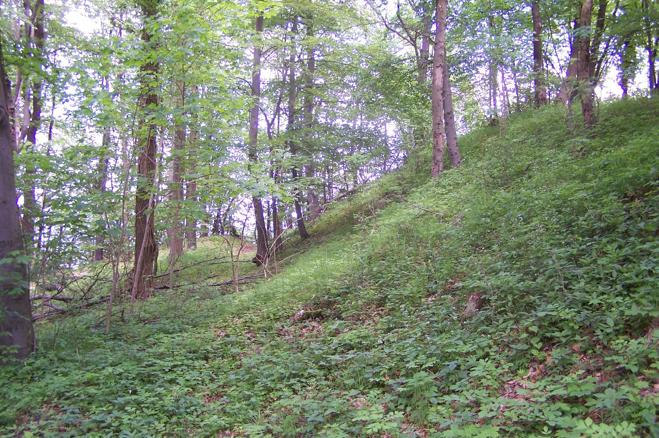 The wall at Hueneburg castle.